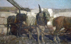 di-russo painting